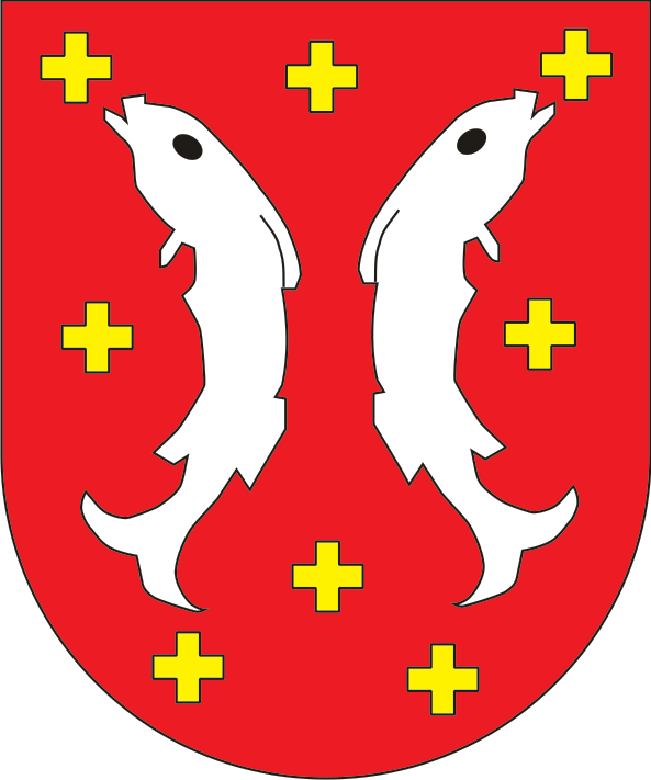 coats of arms of the county of (Upper-)Salm